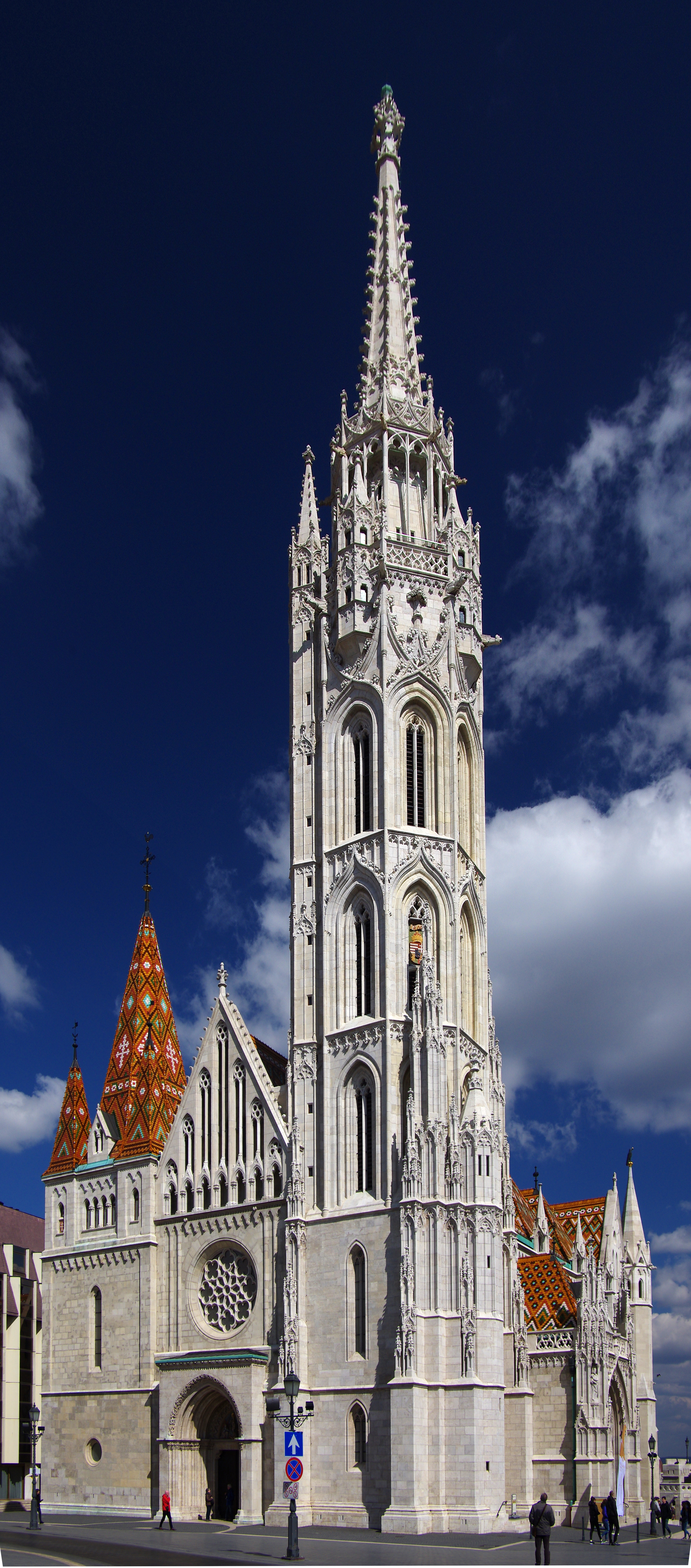 03 2019 photo Paolo Villa - F0197867 bis (with gimp and polarized)- Budapest - Chiesa San Mattia - facciata - Facade of Matthias Church (Budapest)